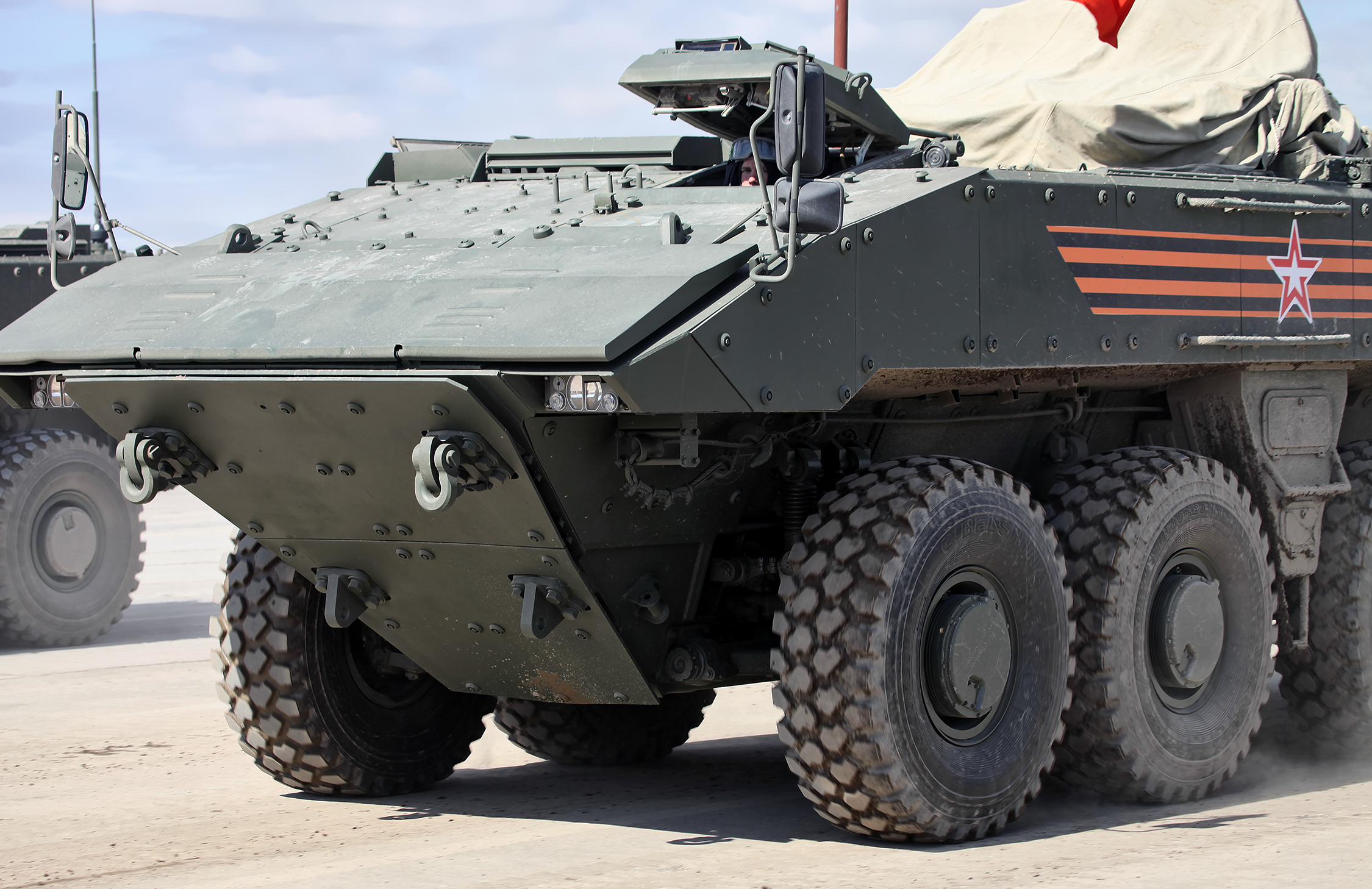 APC VPK-7829 Bumerang (during the first open rehearsal in Alabino)